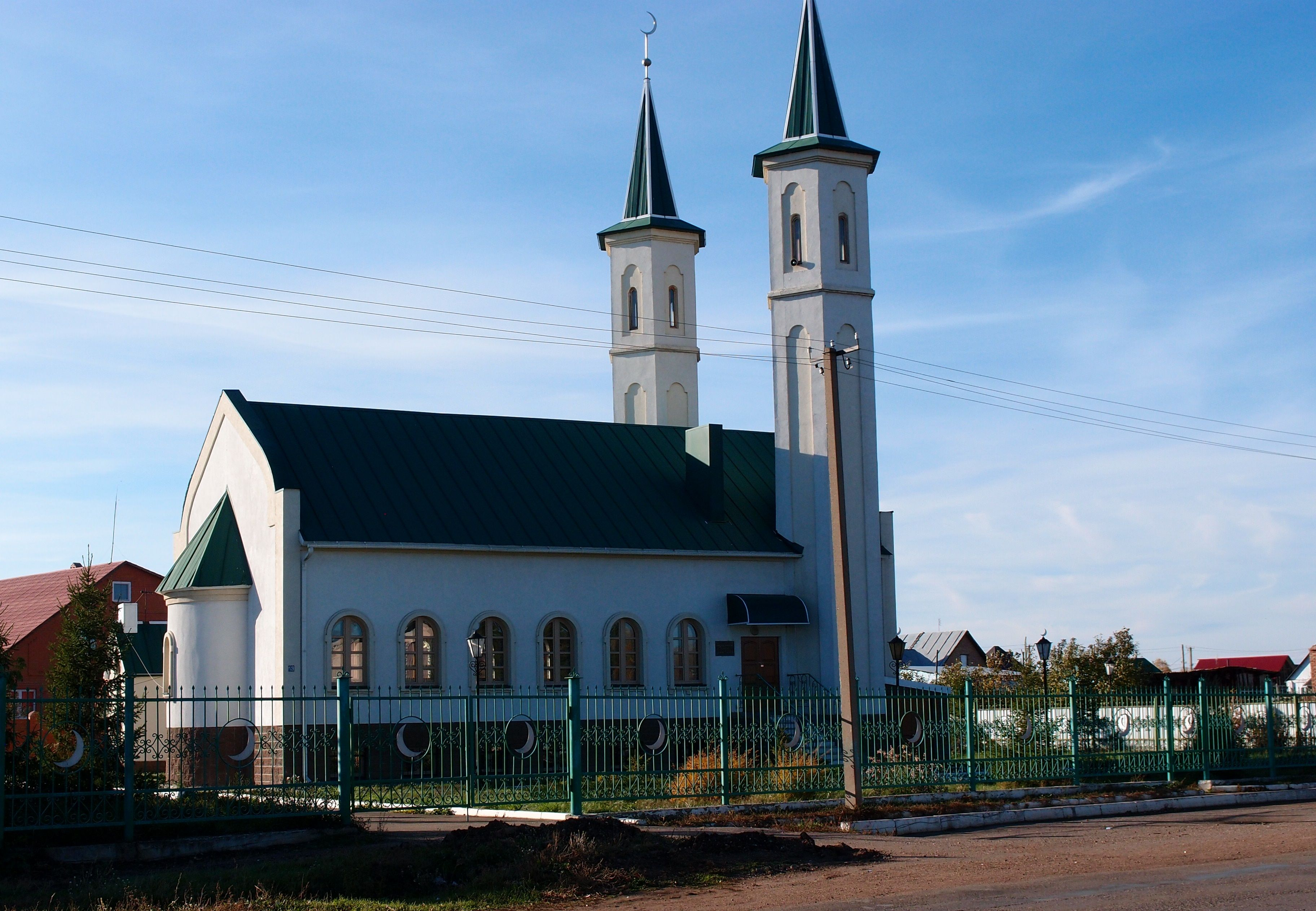 Ishimbai rayon